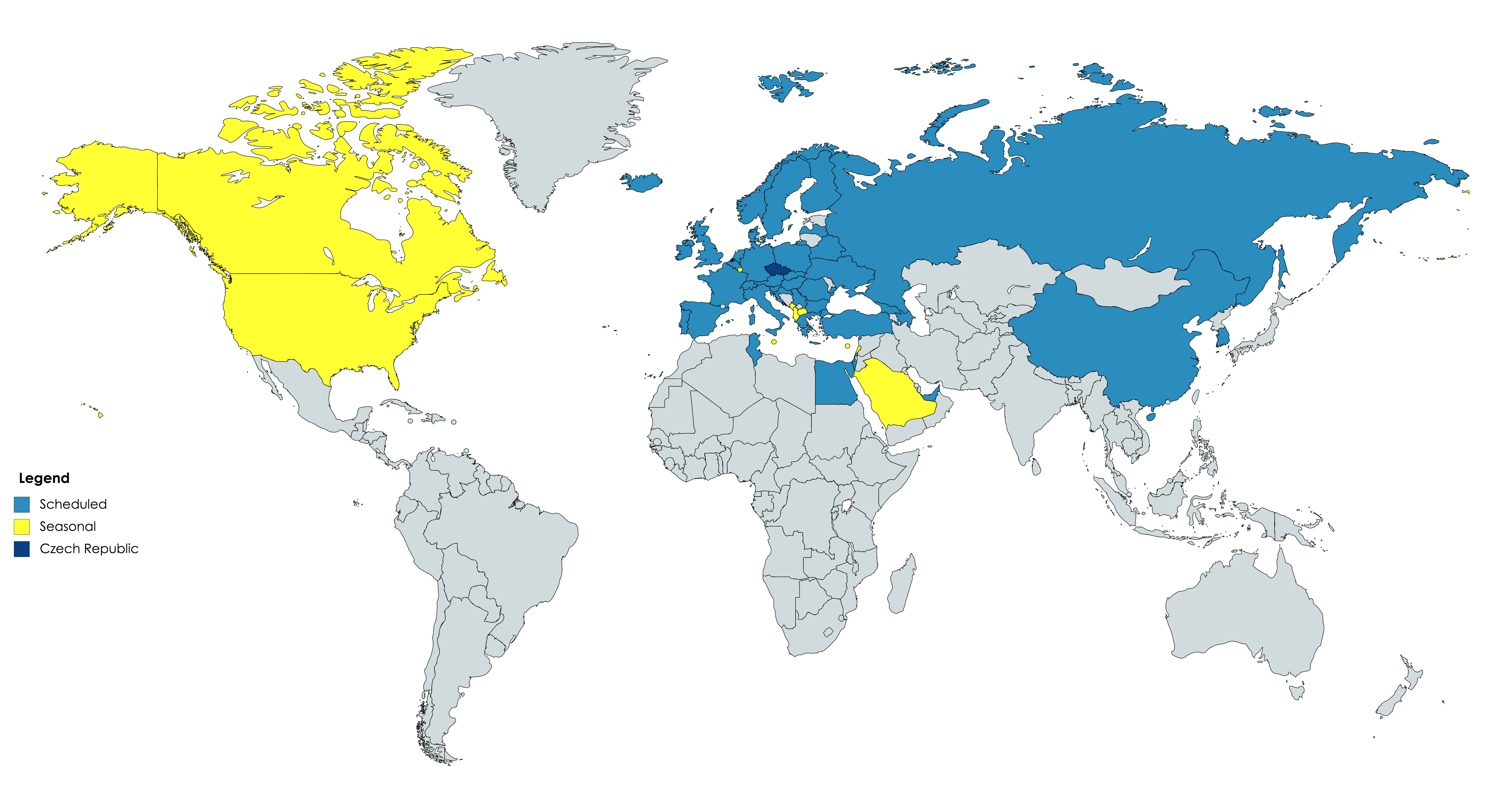 Vaclav Havel Airport destinations 2017 Dark blue – Czech Republic Blue – scheluded destinations Yellow – seasonal destinations ,*not charters included